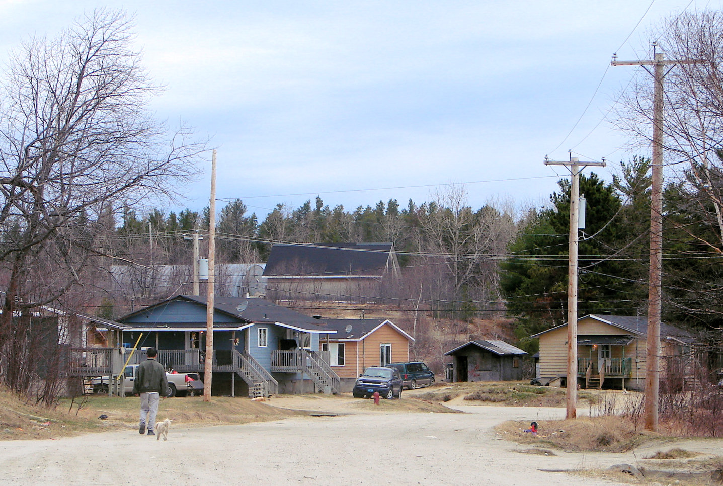 Rapid Lake reserve of the Barrière Lake Algonquins, Quebec, Canada